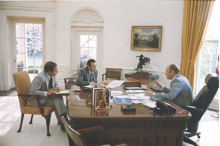 then-President Gerald Ford with Donald Rumsfeld and Dick Cheney in the Oval Office, 23 April, 1975